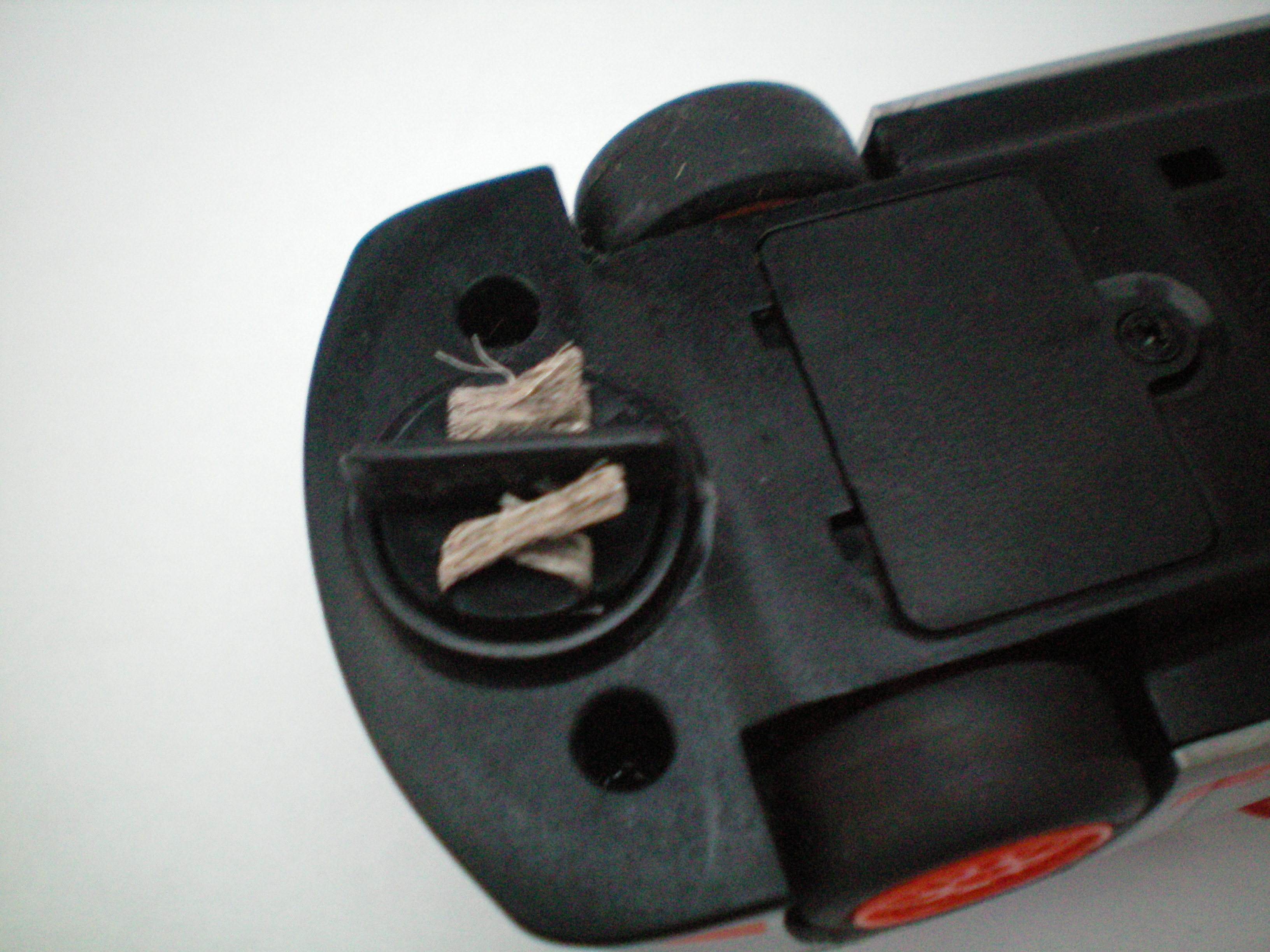 Electric brushes on bottom of Scalextric model